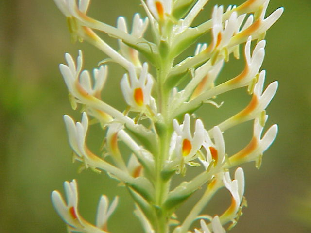 Species: Hebenstreitia dentata Family: Scrophulariaceae Image No. 2